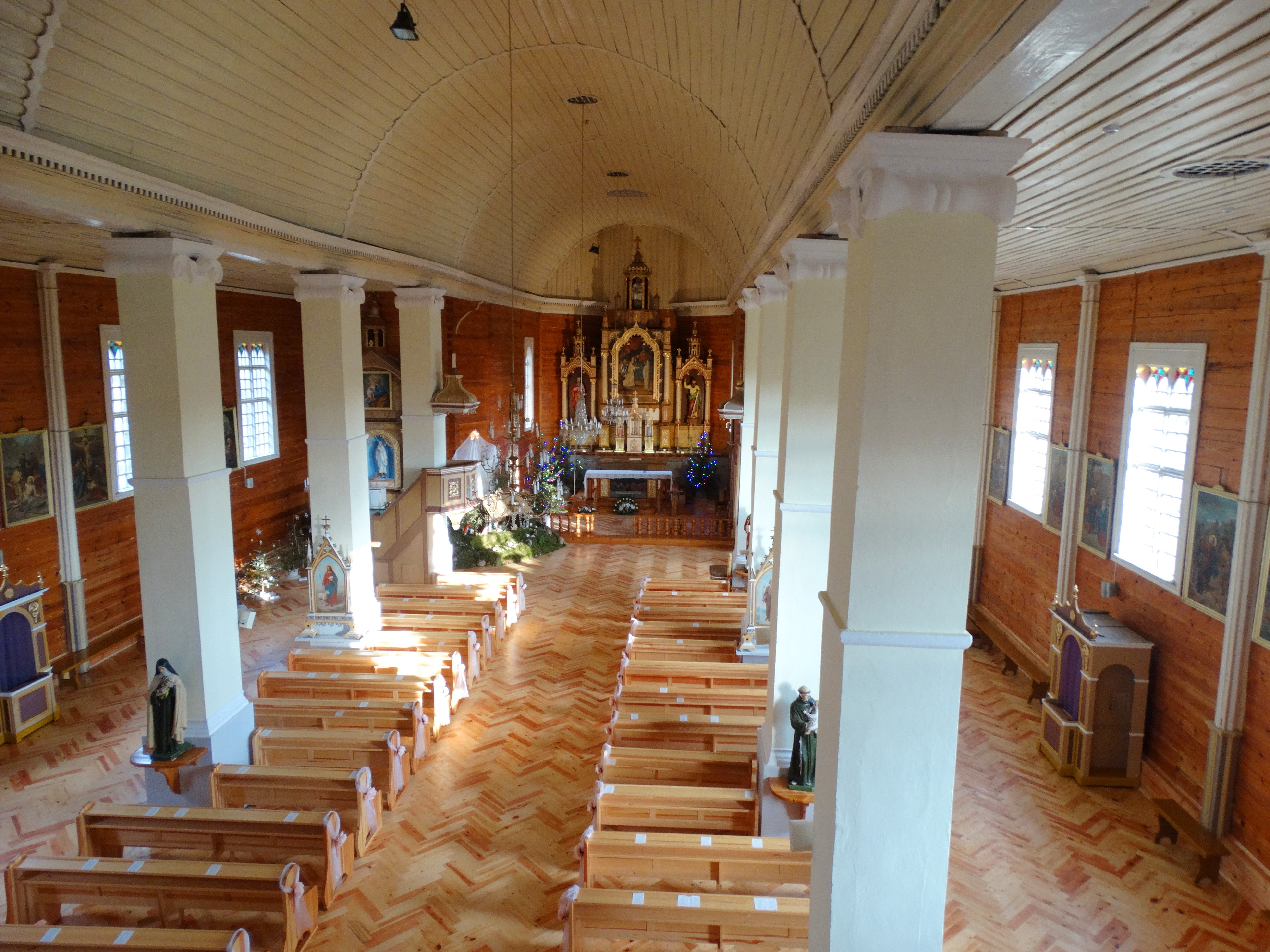 Catholic church in Višakio Rūda, Kazlų Rūda municipality, Lithuania